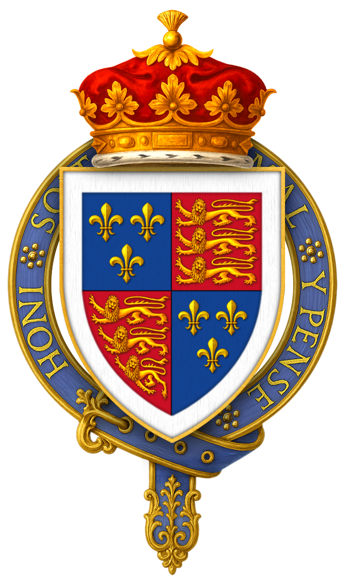 Sir Henry Stafford, 2nd Duke of Buckingham, KG HOPE, W. H. St. John, The Stall Plates of the Knights of the Order of the Garter 1348 – 1485: A Series of Ninety Full-Sized Coloured Facsimiles with Descriptive Notes and Historical Introductions, Westminster: Archibald Constable and Company LTD, 1901. “ Plate LXXX - Sir Henry Stafford, Duke of Buckingham, K.G. 1474-1483... a shield of arms, France modern and England quarterly and a bordure silver... ” The Stall plate remains intact within the twelth stall, on the north side of the quire.